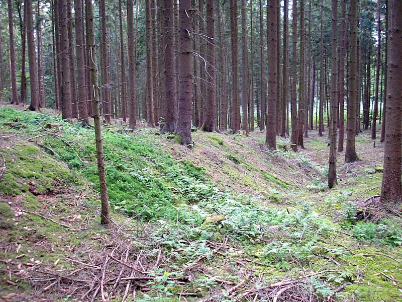 Early Middle Ages hill fort "Schwedenschanze" near Nisselsbach (Aichach, Landkreis Aichach-Friedberg, Bavaria, Germany). The central earthworks of the bailey, looking west.